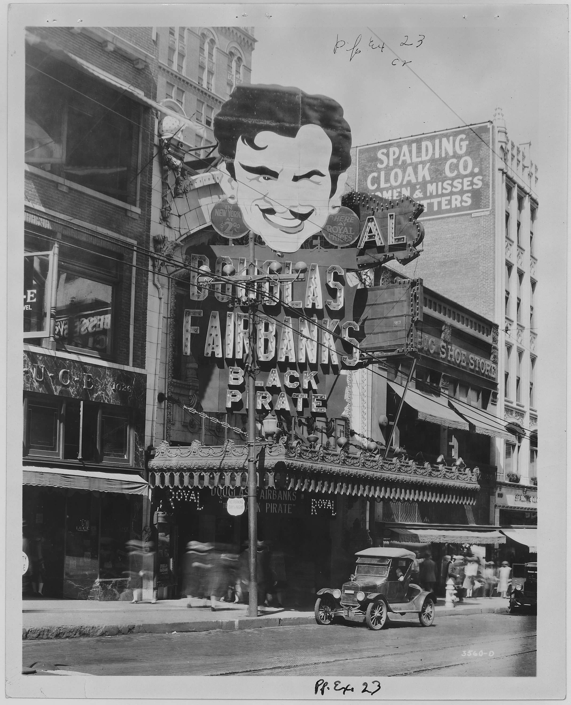 Scope and content: Exterior shots, both daylight and night exposures, showing the front of the theater and other businesses on the street. The marquee displays feature Clara Bow, Douglas Fairbanks, Lillian Gish, and Harold Lloyd, among others. The motion picture titles are clearly visible. #891 is a panorama of the block clearly showing details on the front of the buildings. In many of the photos cars are parked on the street.